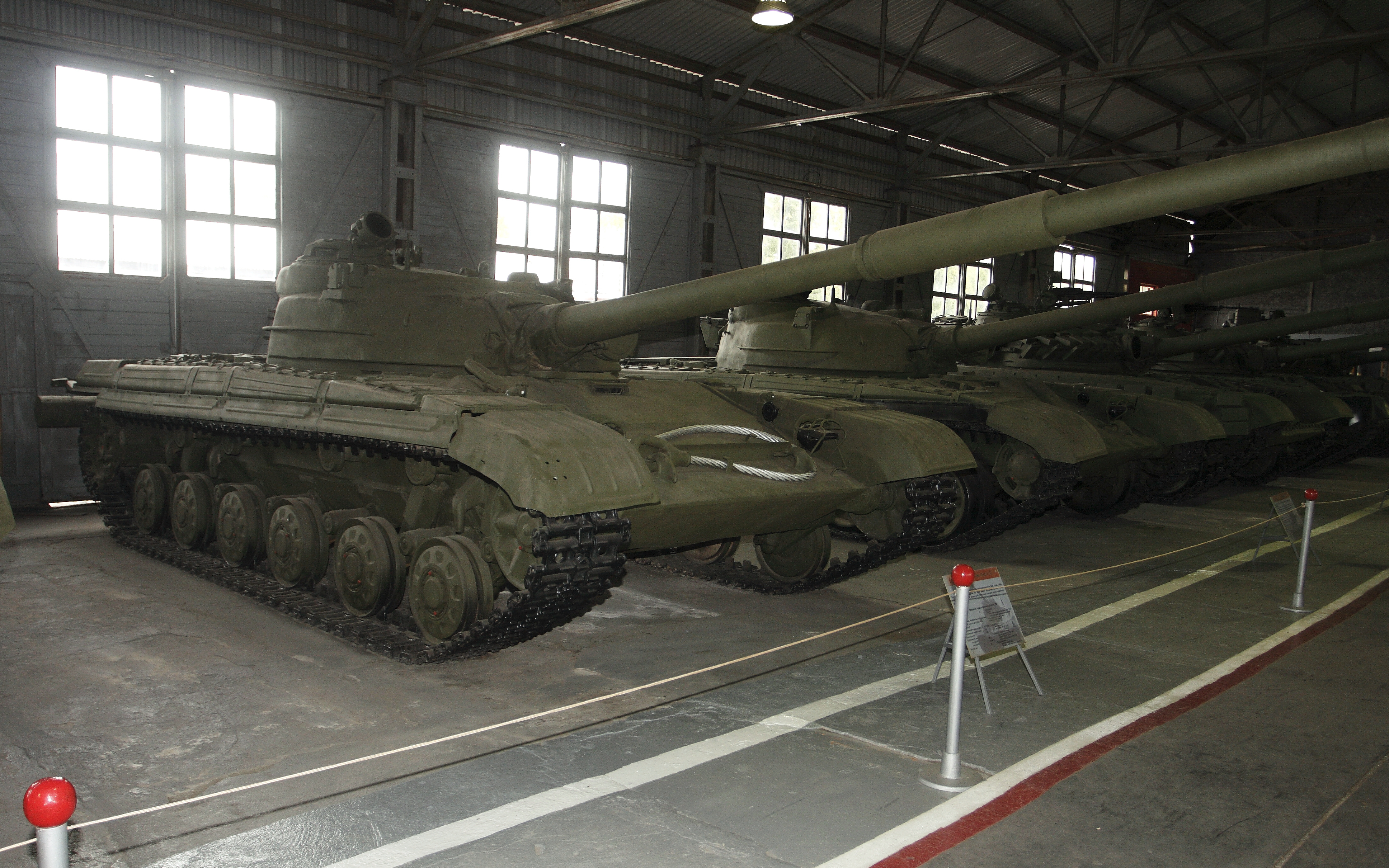 Object 172 (T-72 prototype on the basis of T-64) in Kubinka Tank Museum